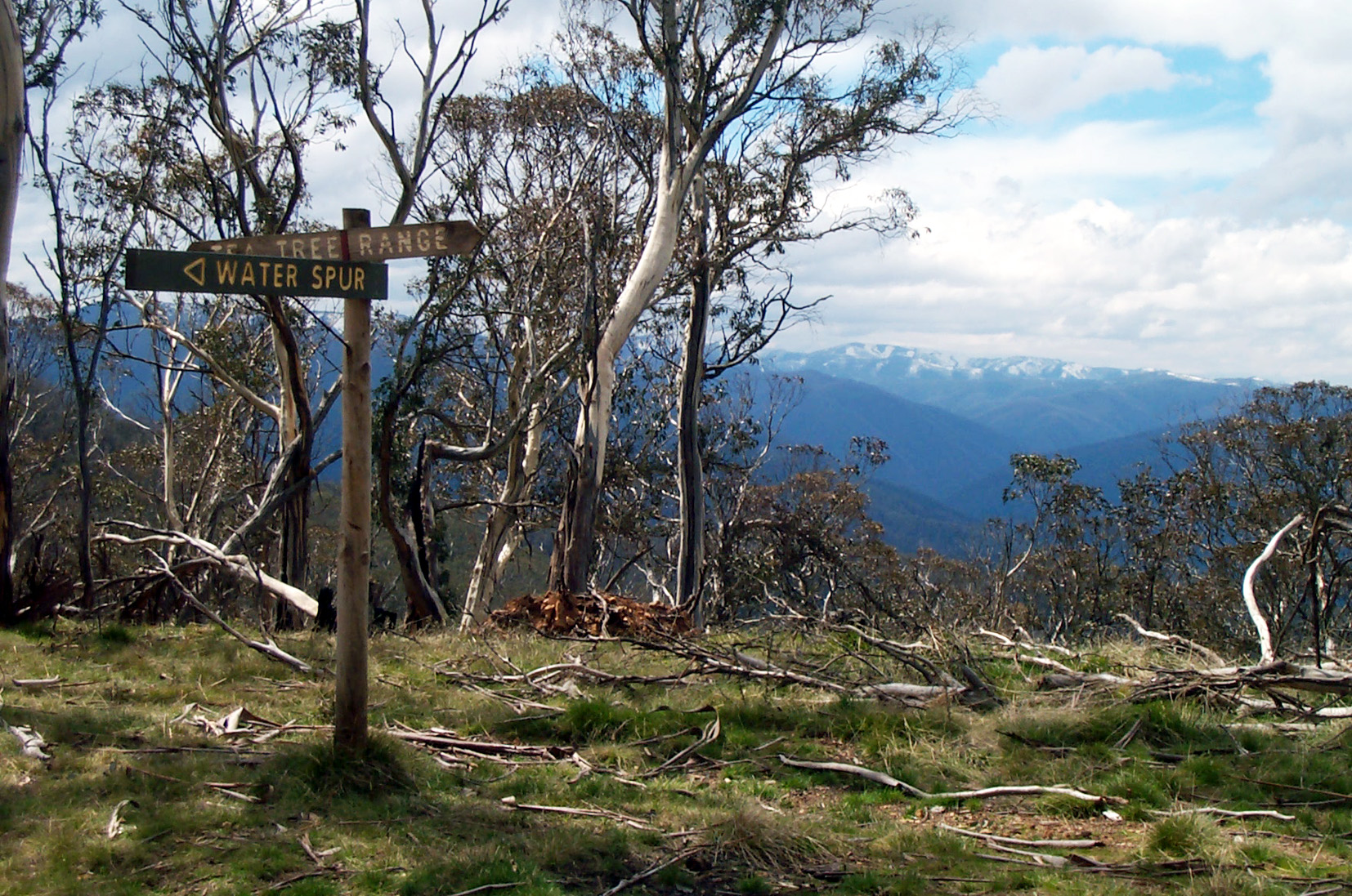 Mt Sarah, Victoria, Australia